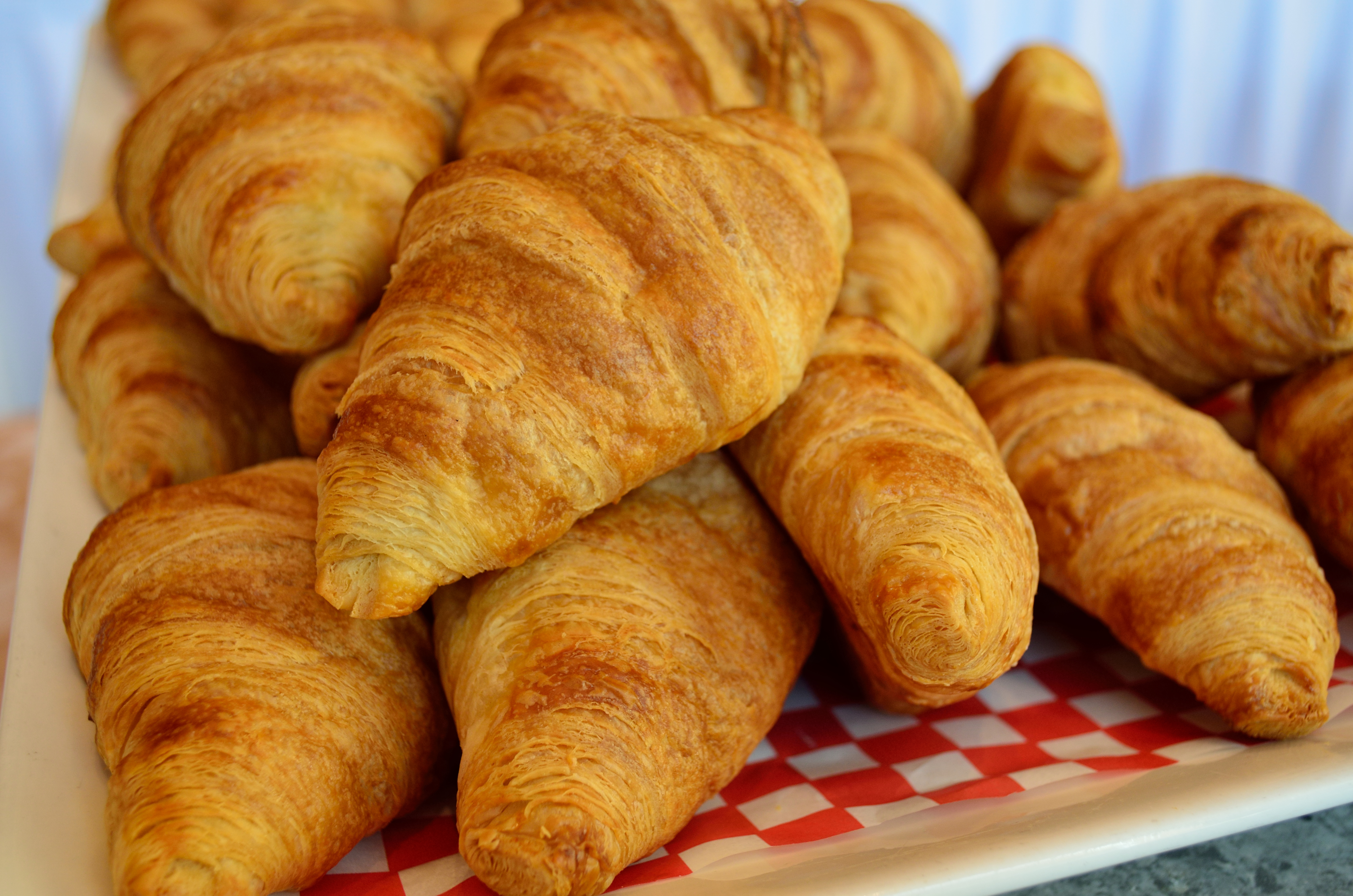 A pile of croissants.